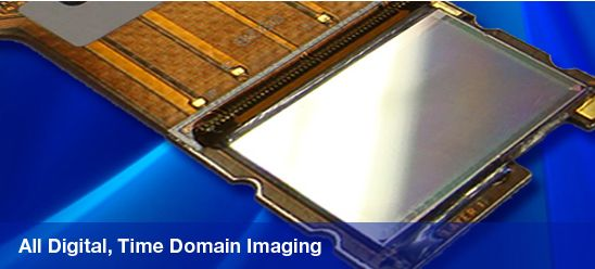 Microdisplay from Forth Dimension Displays